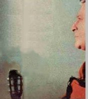 Cesar Isella. Picture from the álbum "Estoy de vuelta". 1968